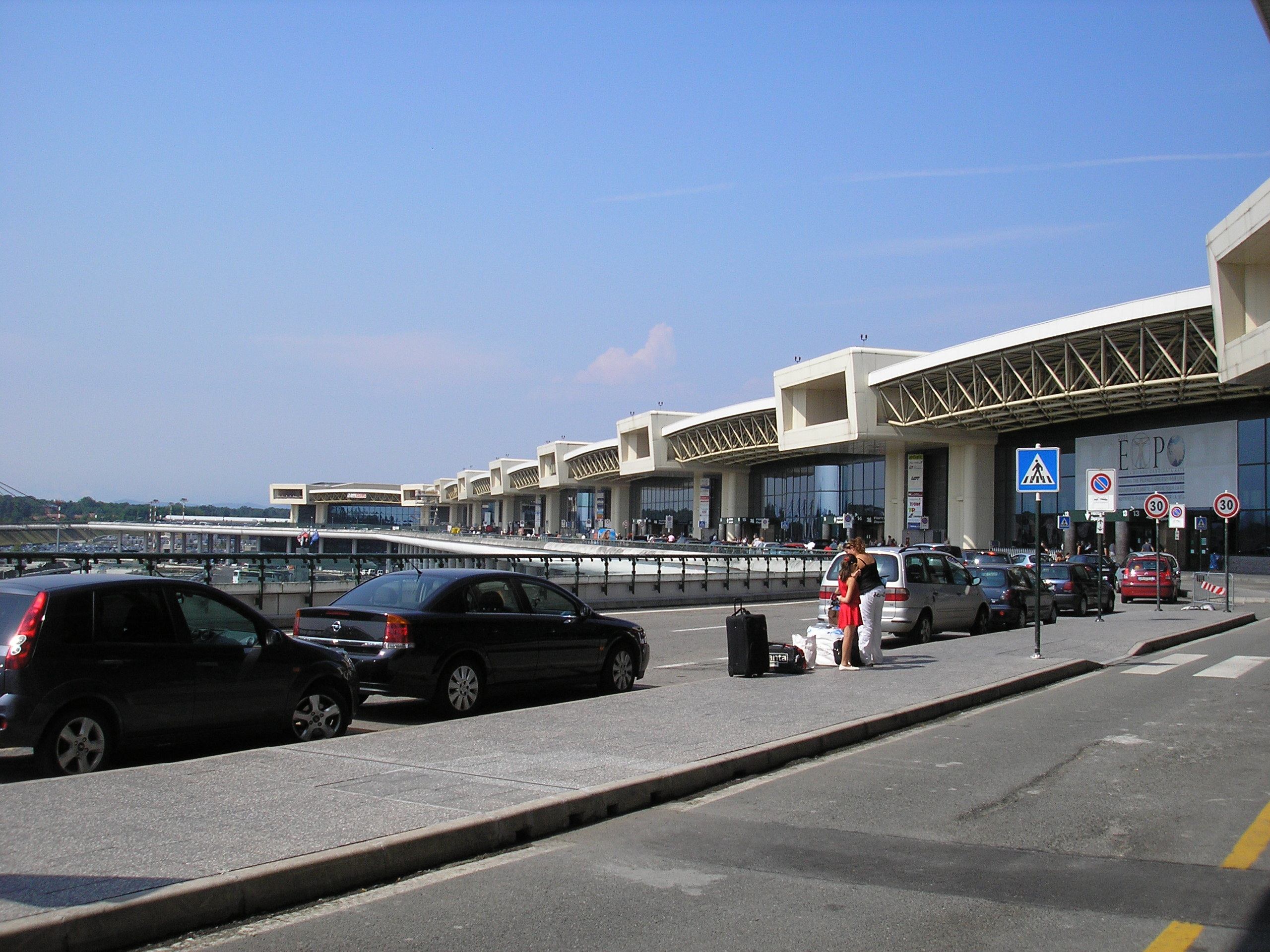 Terminal 1 of Milan-Malpensa Airport